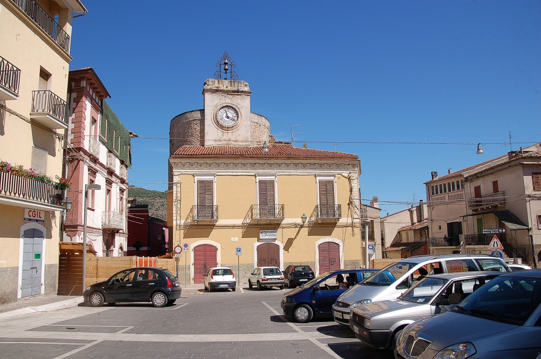 Raiano